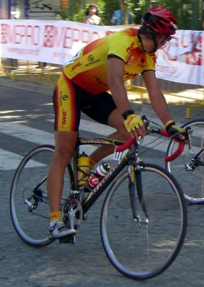 Cycling race "Pomorski Classic" - Czajkowski Daniel